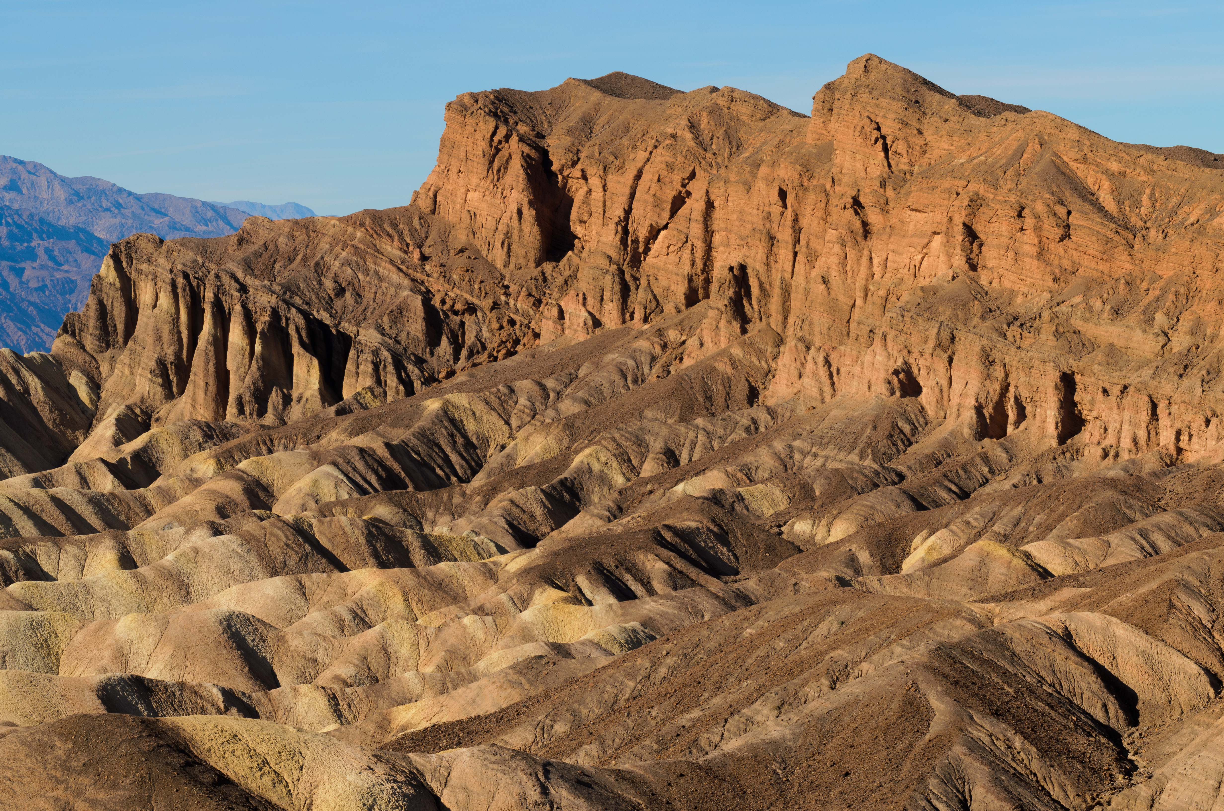 Red Cathedral, Zabriskie Point, Death Valley National Park, California.